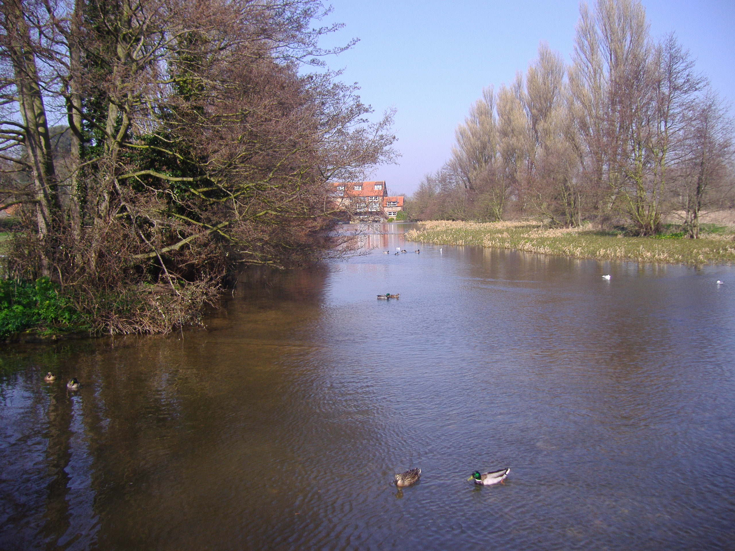 A Digital Photograph of the River Glaven at Glandford 25/3/2007